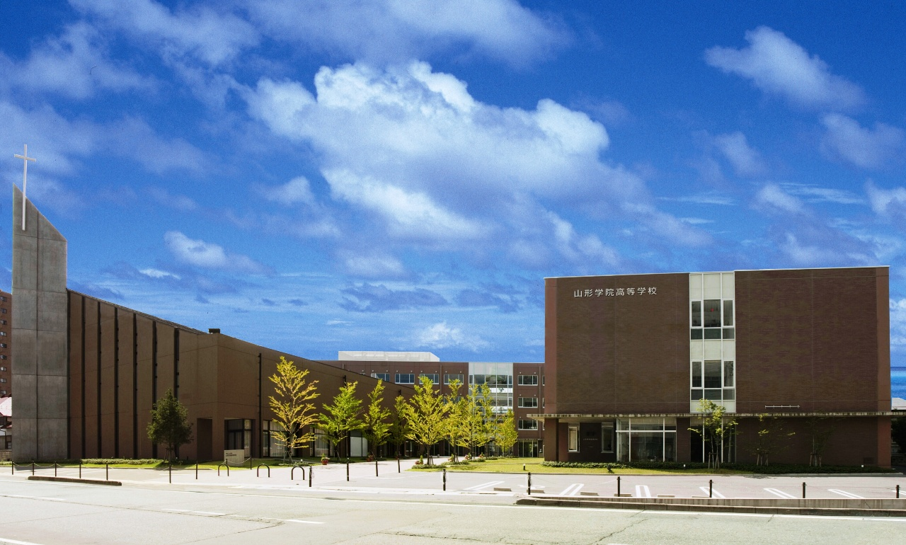 A photo of the Yamagata Gakuin High School building